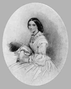 59. Elizabeth Theresa Vidal was born on 23 Mar 1841 in Minchinbury, South Creek, NSW, 164 was baptized on 22 Apr 1841 in St. Mary Magdalene, South Creek, NSW, 191 and died on 29 Sep 1898 in 33 Park Mansions, Battersea, London 192,193 at age 57.